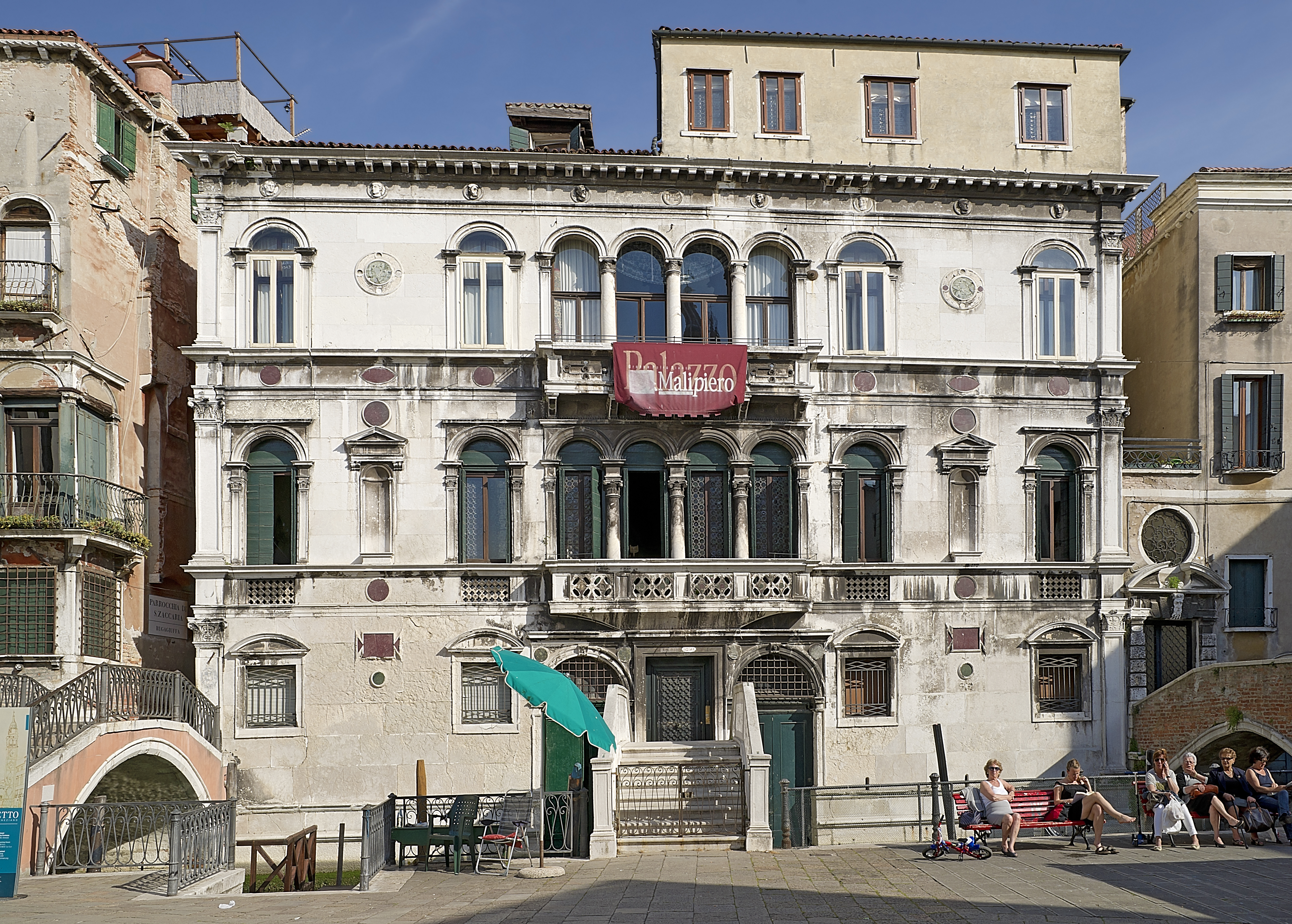 Palazzo Malipiero Trevisan was builtin 16th century in Campo Santa Maria Formosa. Venice.